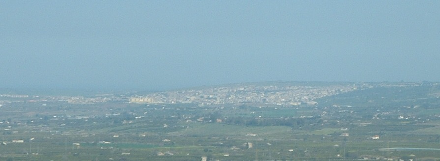 Lentini (SR), View from Francofonte(SR).